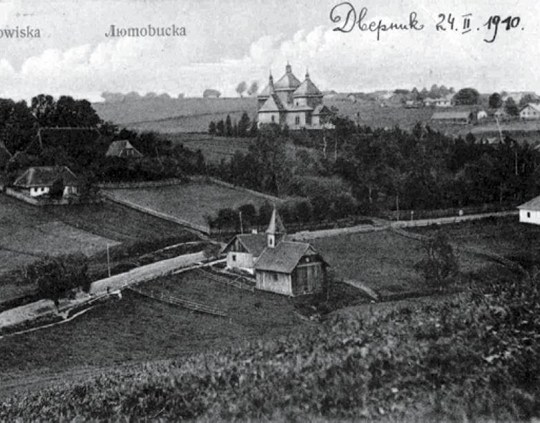 Panorama of Ukrainian-Jewish village Lutowiska (Litovyshchi) in 1910. In the distant view - Ukrainian Greek Catholic Church of Archangel Michael (build in 1868, destroyed in 1980)